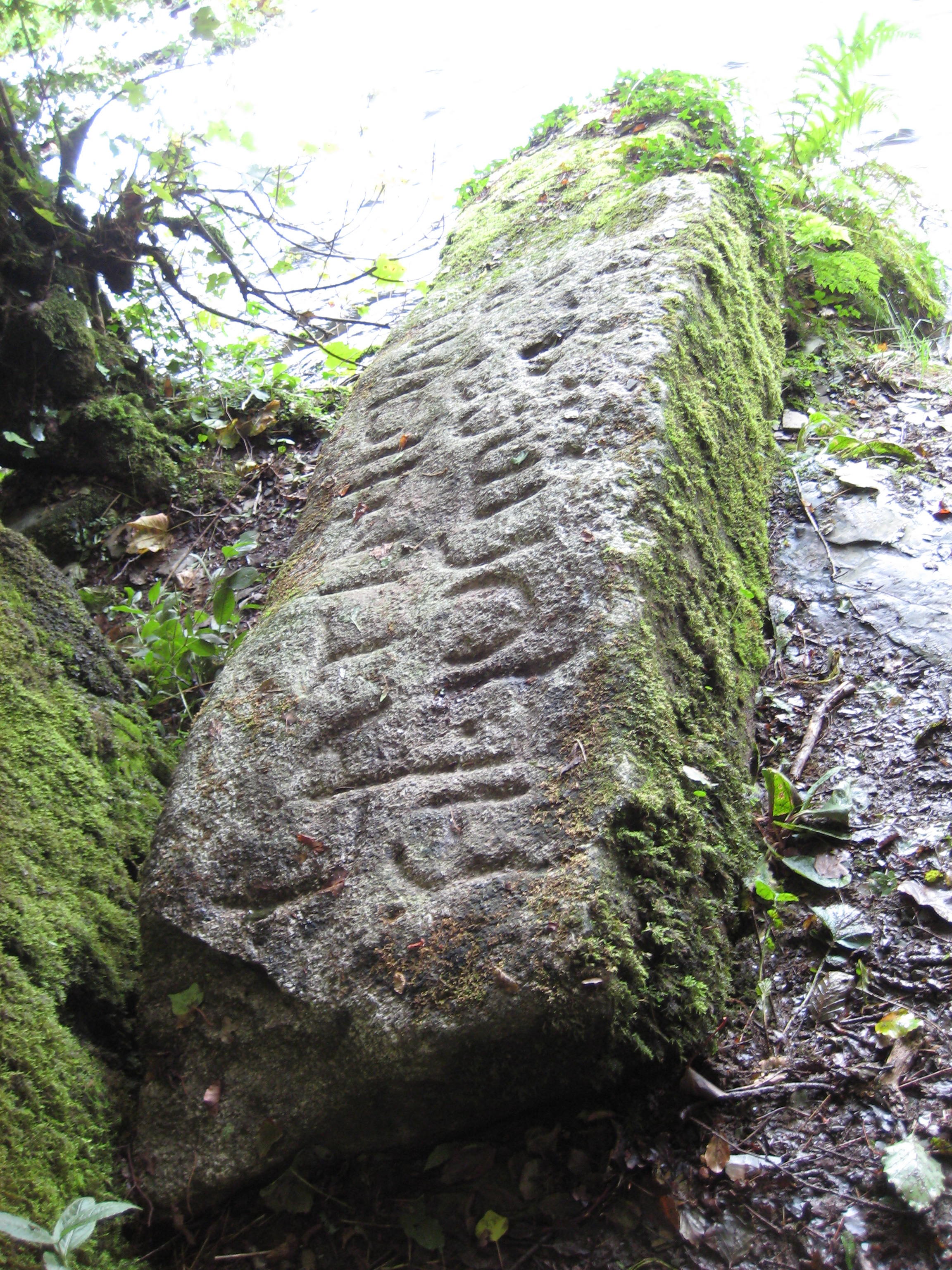 Inscribed stone on the bank of the River Camel, about 150 metres upstream from Slaughter Bridge, near Camelford, Cornwall (CISP WVALE/1). Inscribed "LATINI (H)IC IACIT FILIUS MAGARI" in the Latin script, and "LA[TI]NI" ᚂᚐᚈᚔᚅᚔ in the Ogham script (see File:Worthyvale ogham stone detail.JPG for detail showing the now almost illegible Ogham inscription).